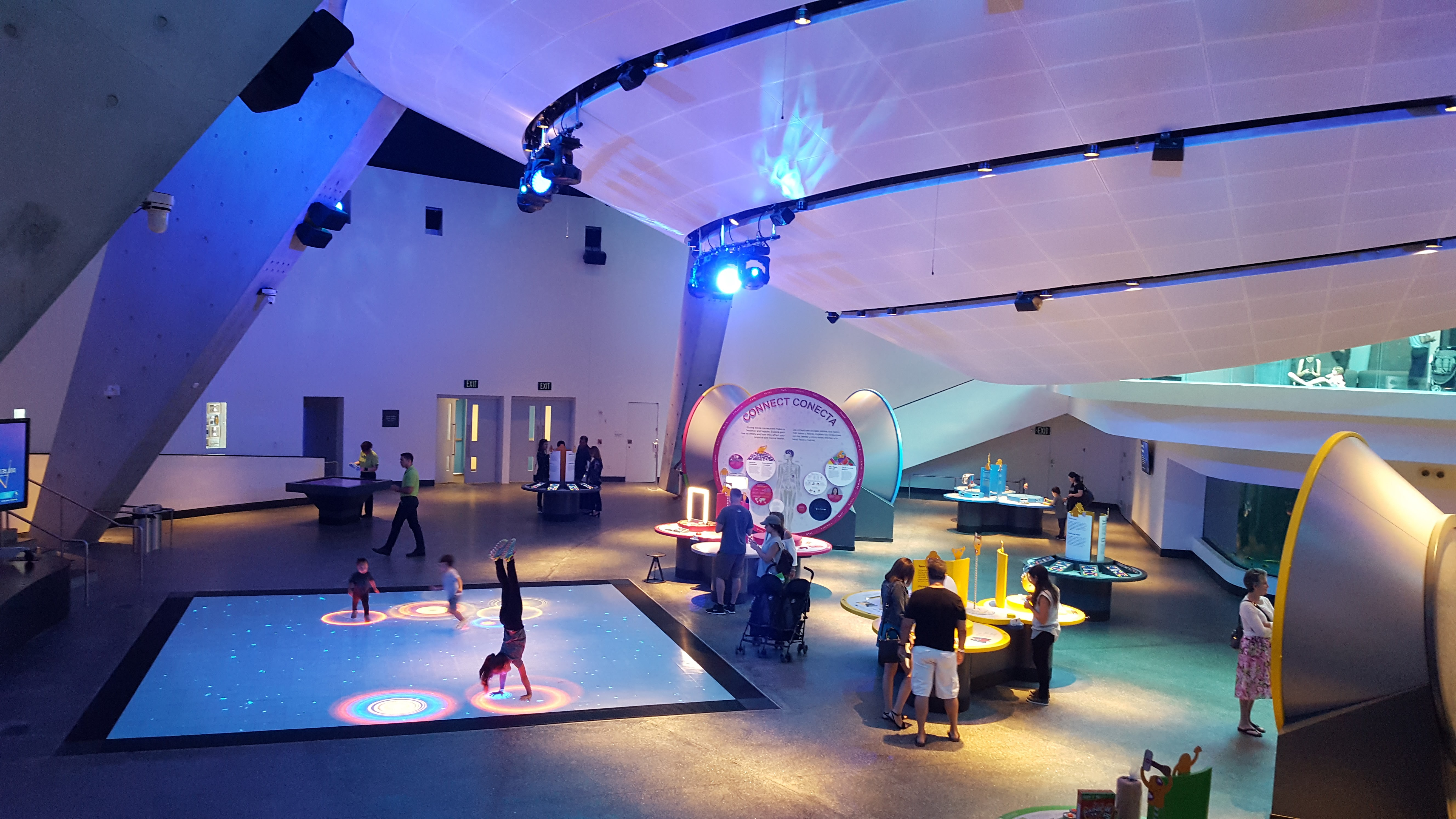 Children and adults learn about nutrition and heart health in the Baptist Health South Florida Gallery at Frost Museum of Science in Miami. Phillip and Patricia Frost Museum of Science